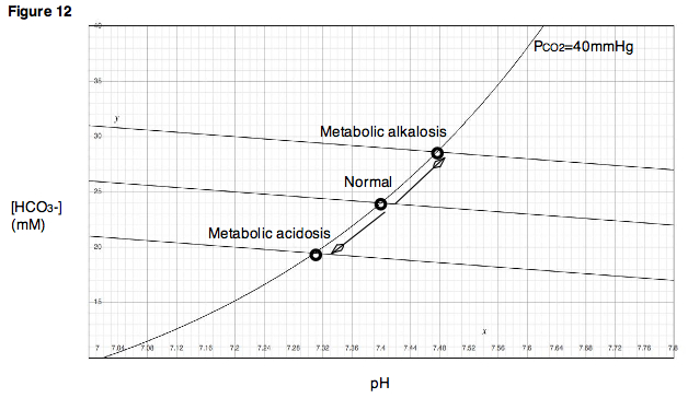 Figure 2. A typical Davenport Diagram.